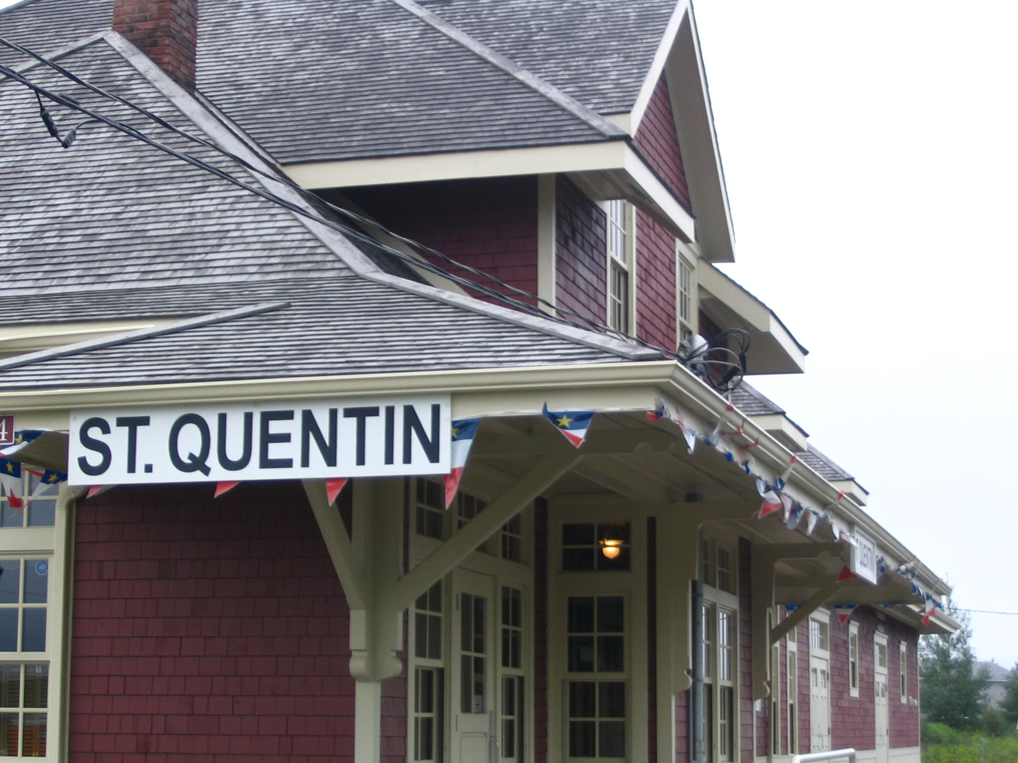 The Saint-Quentin train station in New Brunswick, Canada.